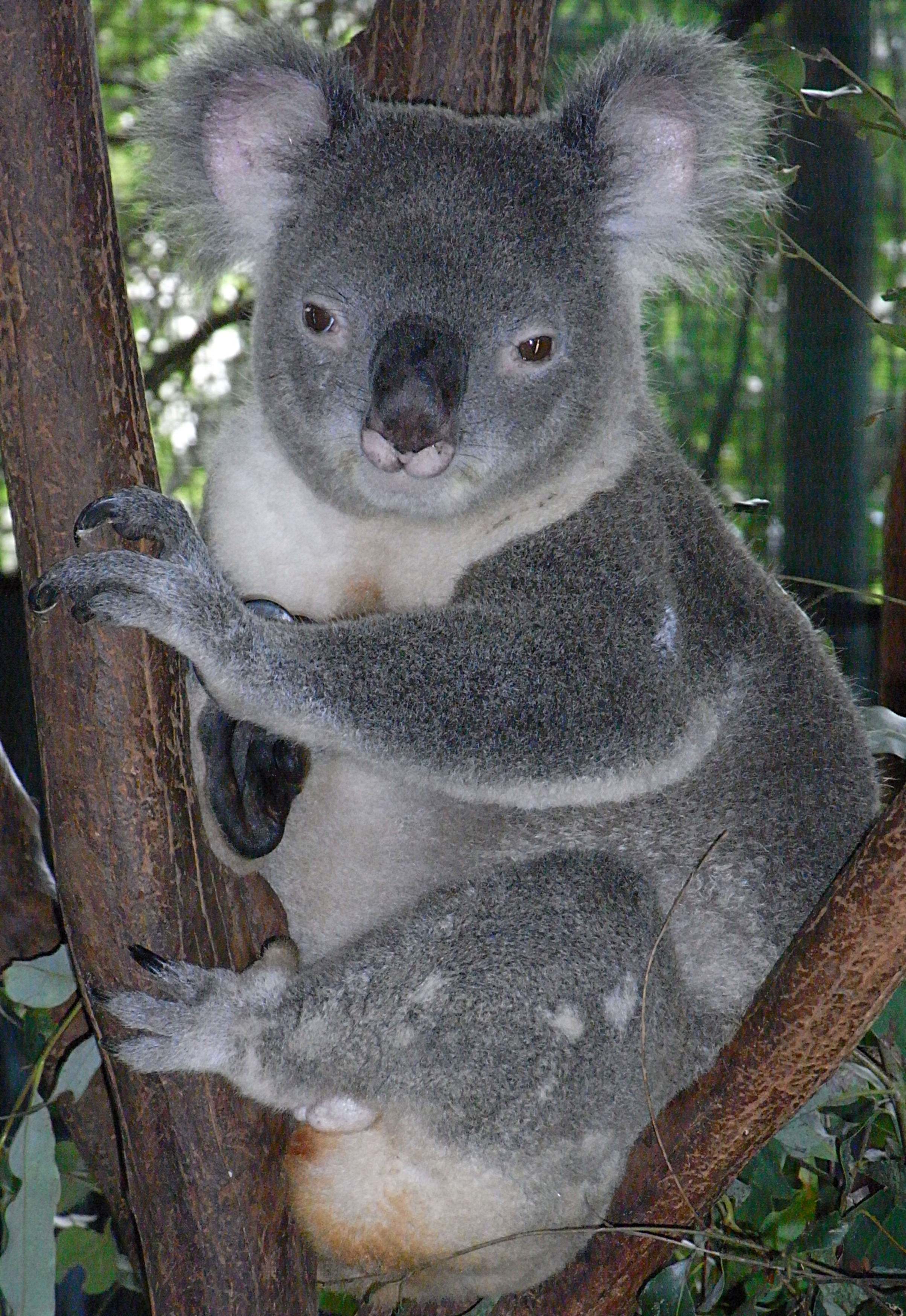 Male Koala (Phascolarctos cinereus) at Billabong Koala and Aussie Wildlife Park, Port Macquarie, New South Wales, Australia.